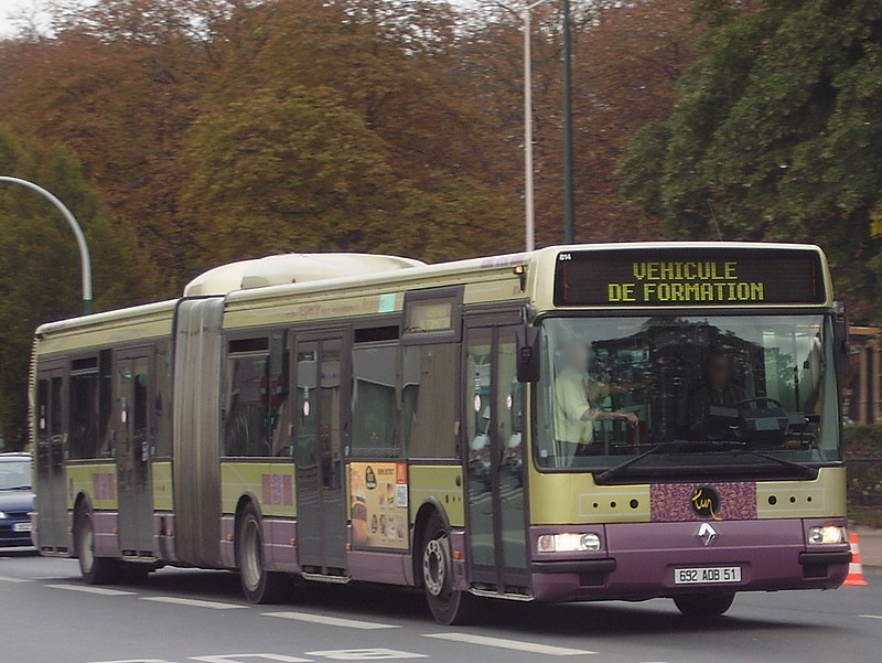 Renault/Irisbus Agora L from TUR Rheims network driven by an apprentice.